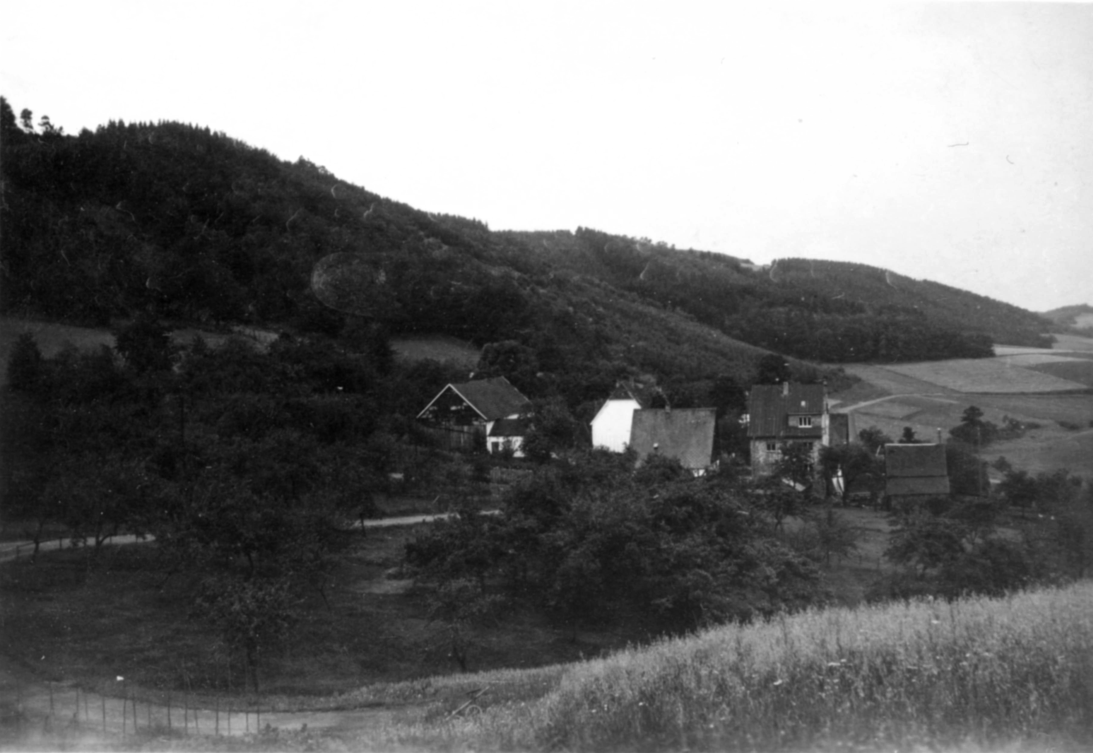 Freischlade, 1920 `s as seen from direction Belmicke